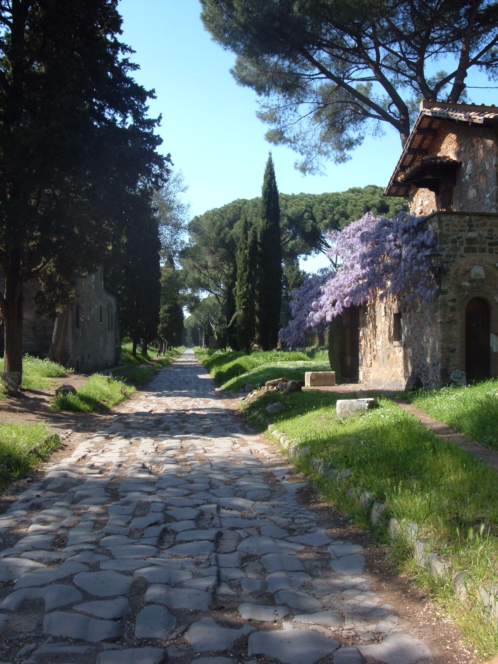 Remains of the Via Appia in Rome, near Quarto Miglio